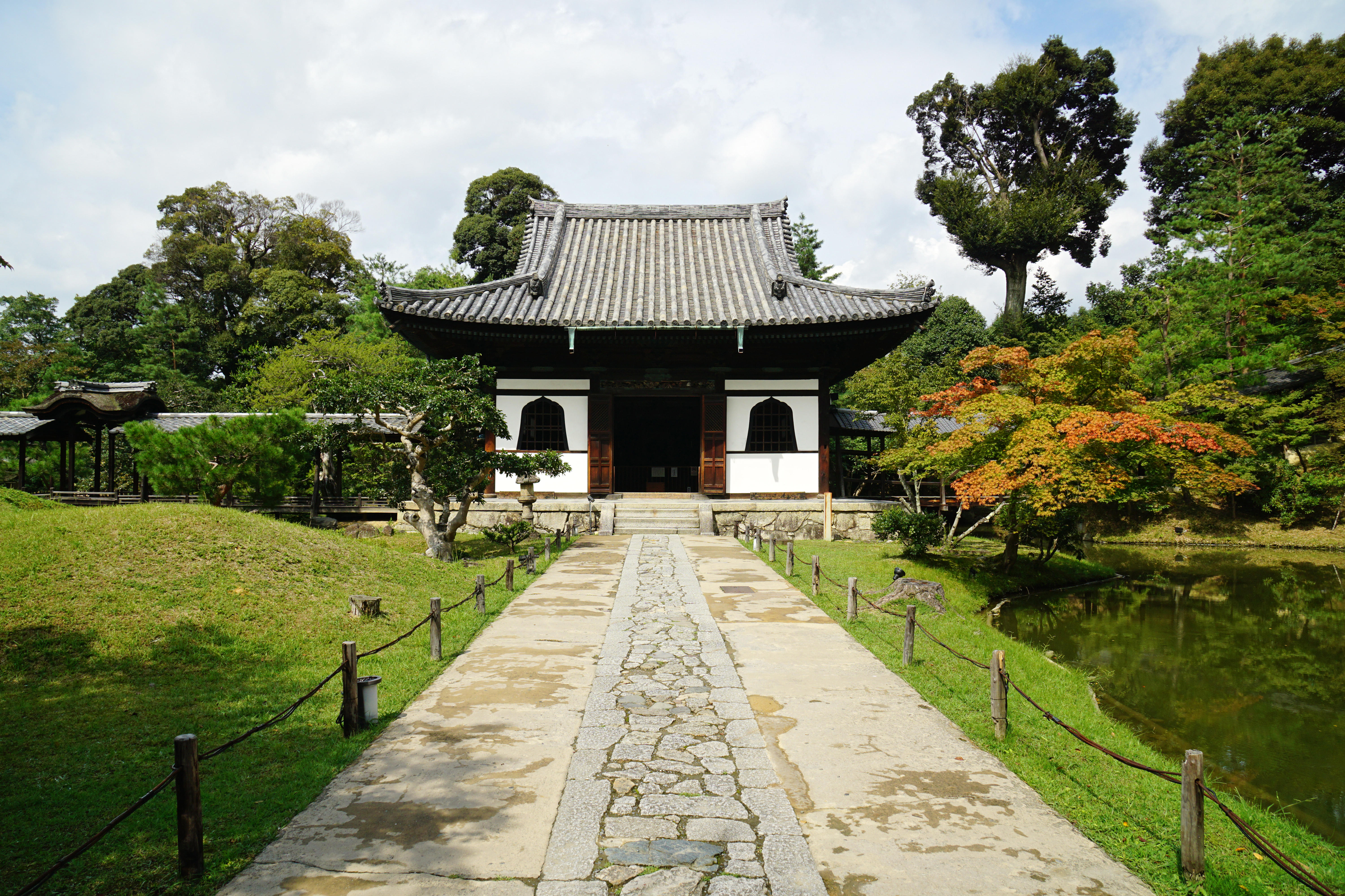 Kōdai-ji in Higashiyama-ku, Kyoto, Kyoto prefecture, Japan